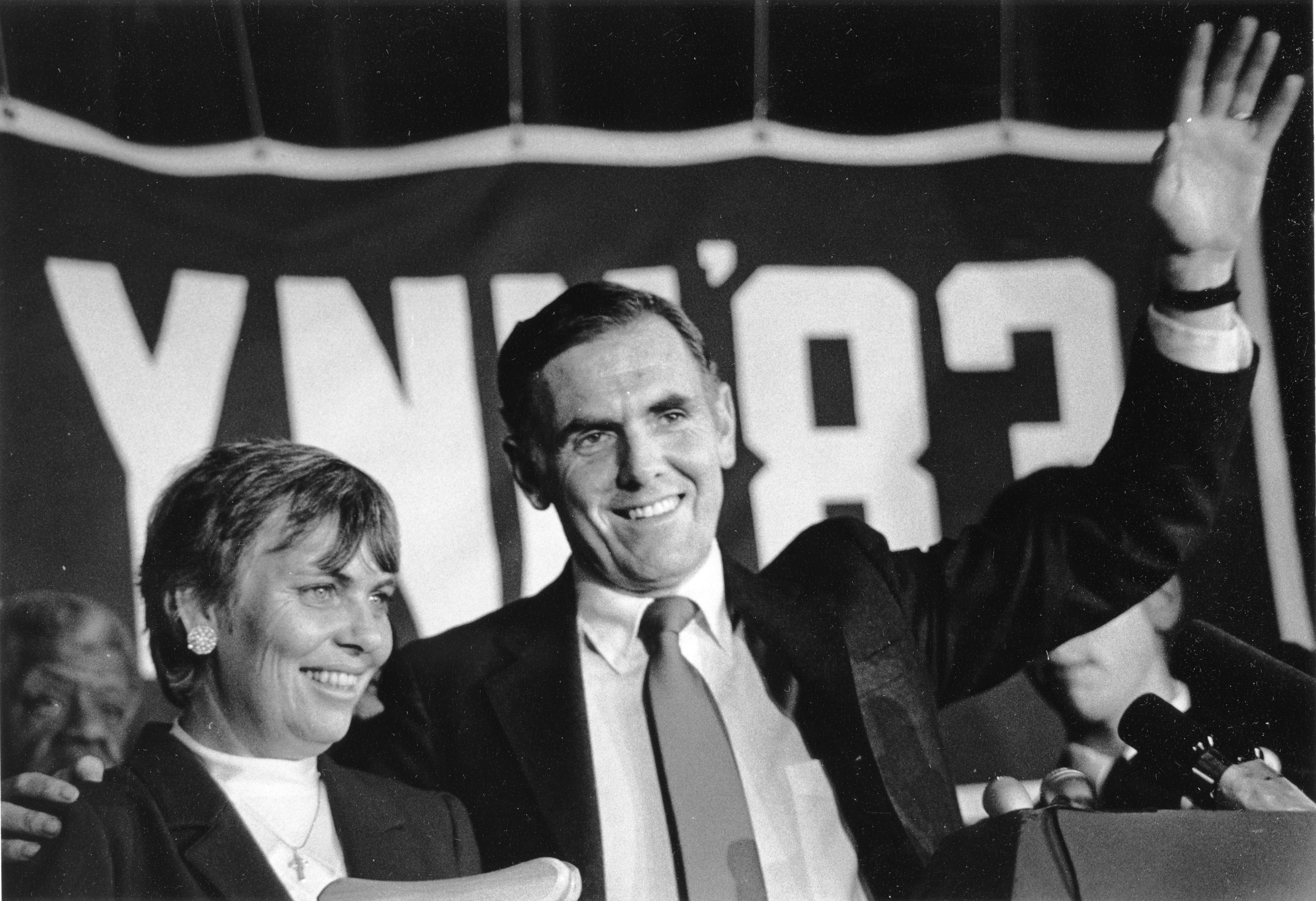 Title: Raymond L. Flynn and Kathy Flynn at election night victory party Creator: Mayor's Office - City Photographer Date: 1983 Source: Mayor Raymond L. Flynn records, Collection #0246.001 File name: RF_0626 Rights: Copyright City of Boston Citation: Mayor Raymond L. Flynn records, Collection #0246.001, City of Boston Archives, Boston